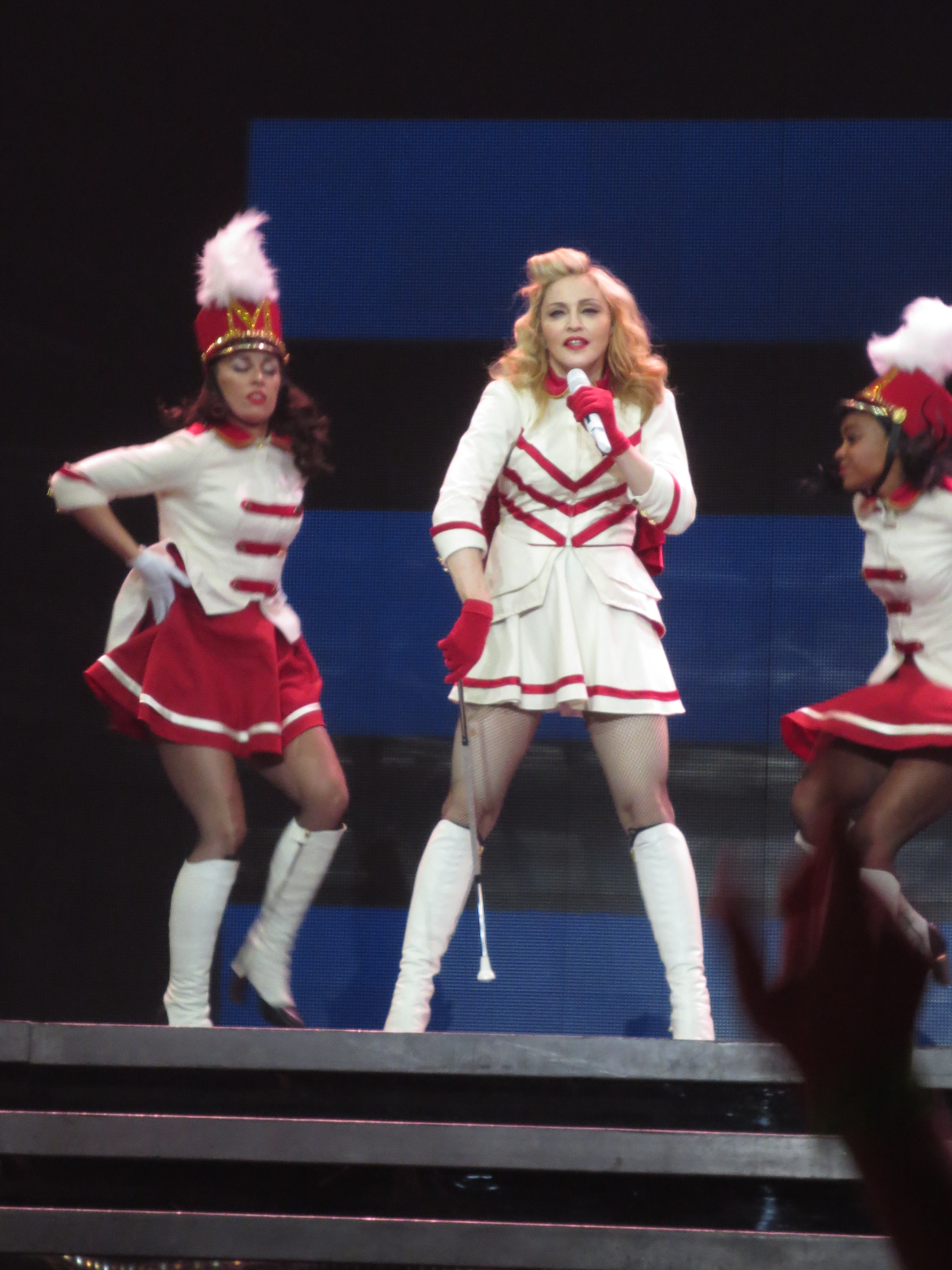 2012 10-25 MDNA Madonna Houston (154)